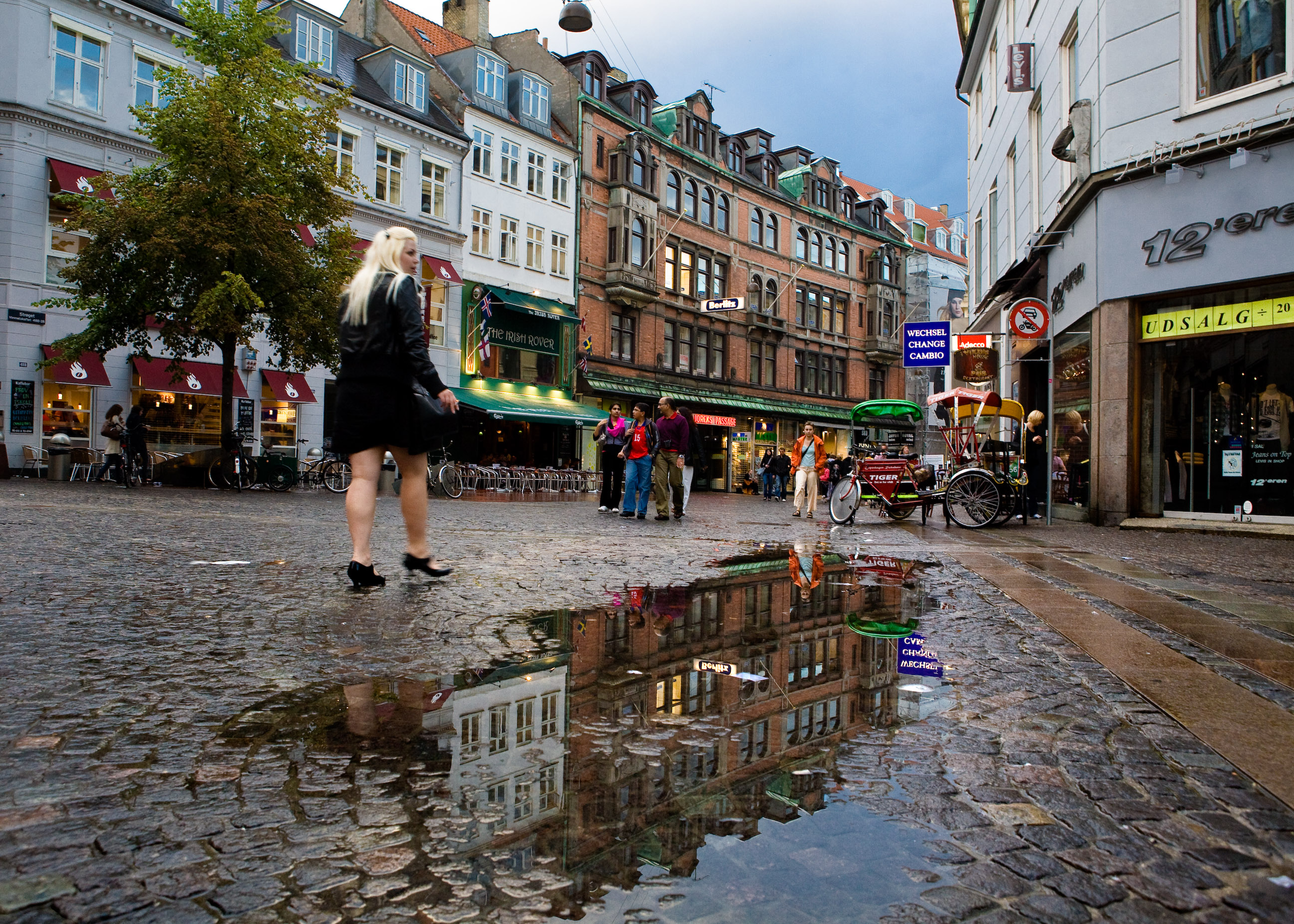 After some heavy rain